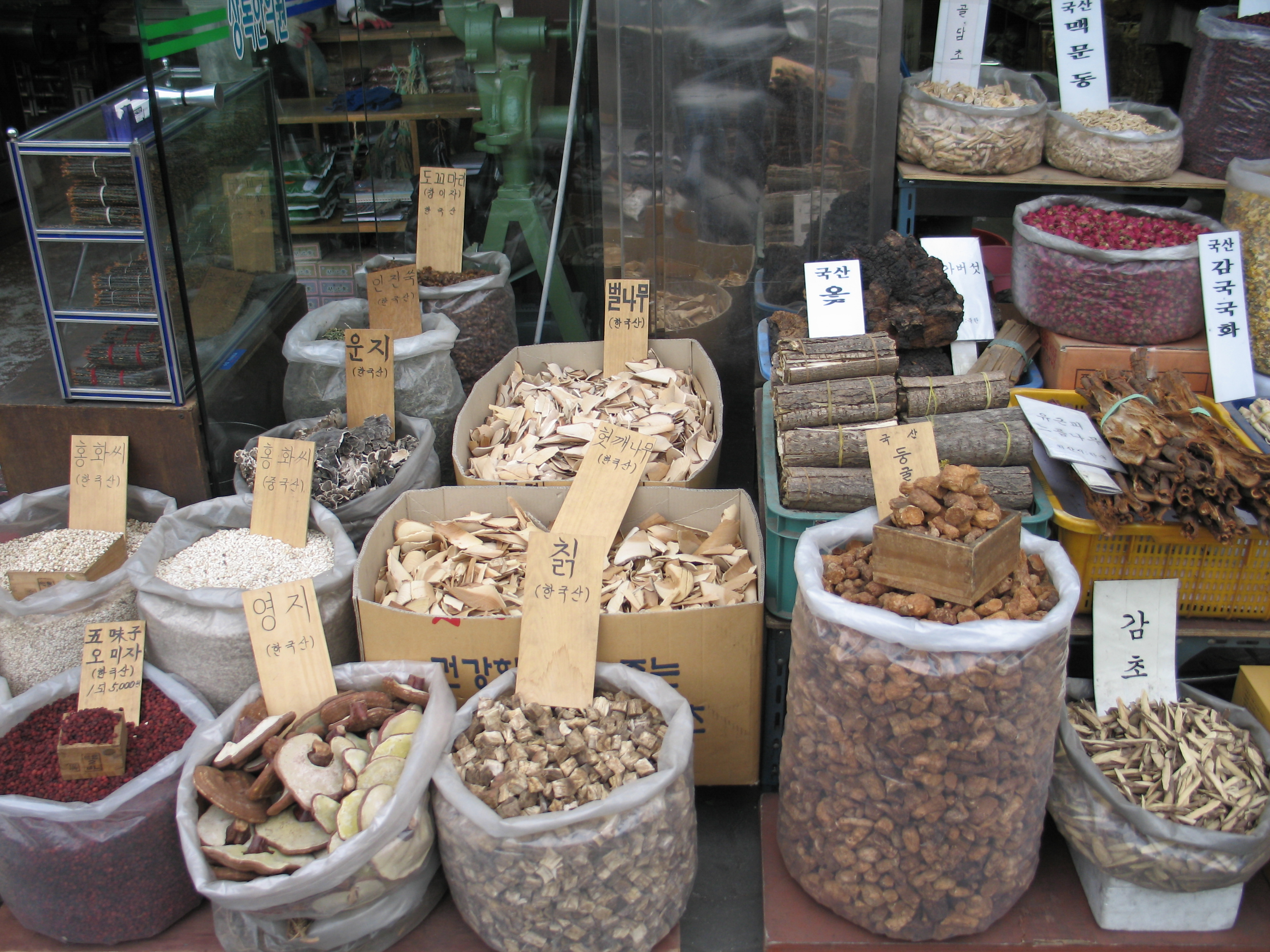 Gyeongdong Market, located in Jaegi-dong area of Dongdaemun-gu, Seoul is the largest oriental herbal market of South Korea.